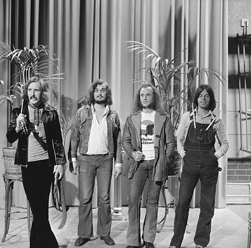 Focus in AVRO's TopPop (Dutch television show) in 1974